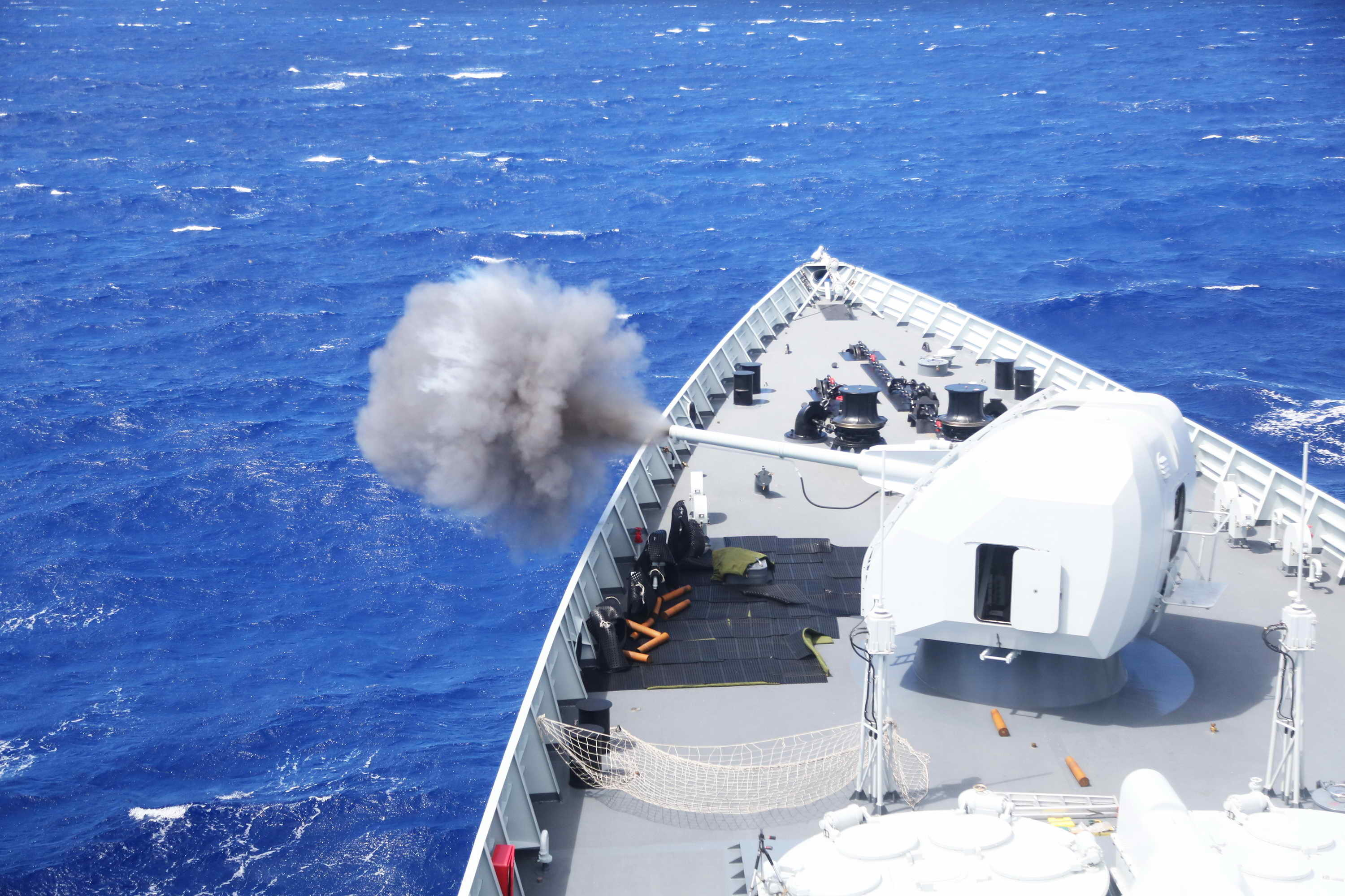 160717-N-QO326-001 PACIFIC OCEAN Chinese Navy guided-missile destroyer Xi’an fires the main gun during a gun exercise at Rim of the Pacific 2016. Twenty-six nations, more than 40 ships and submarines, more than 200 aircraft and 25,000 personnel are participating in RIMPAC from June 30th to August 4th, around the Hawaiian Islands and Southern California. As the largest international maritime exercise in the world, RIMPAC provides a unique training opportunity that helps participants foster and sustain the cooperative relationships that are critical to ensuring the safety of sea lanes and security on the world's oceans. RIMPAC 2016 is the 25th exercise in the series that began in 1971. Unit: Commander, U.S. 3rd Fleet DVIDS Tags: china; gunnery; rimpac